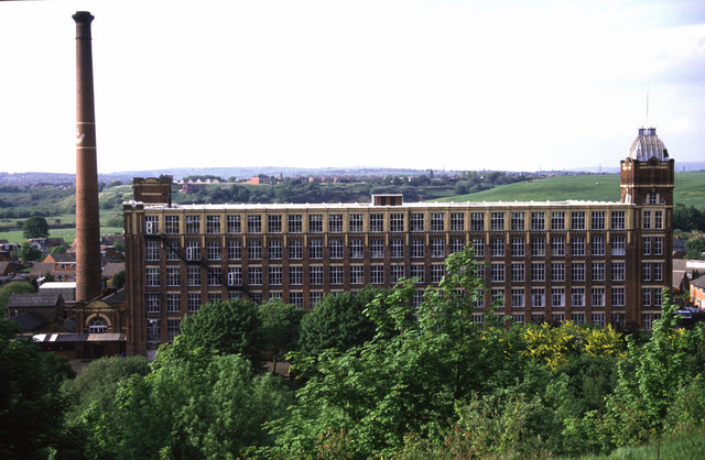 Kearsley Mill, Crompton Road, Prestolee A fine Edwardian mill (1906). Listed grade II. Had its own steam turbine generating plant.